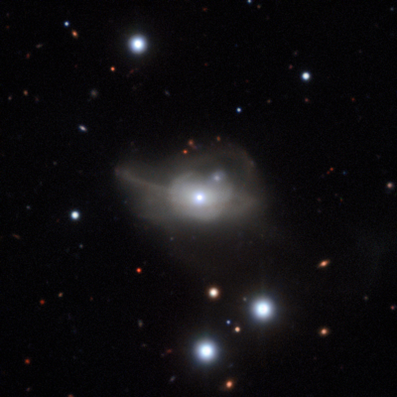 This image from the MUSE instrument on ESO’s Very Large Telescope shows the active galaxy Markarian 1018, which has a supermassive black hole at its core. The faint loops of light around the galaxy are a result of its interaction and merger with another galaxy in the recent past.